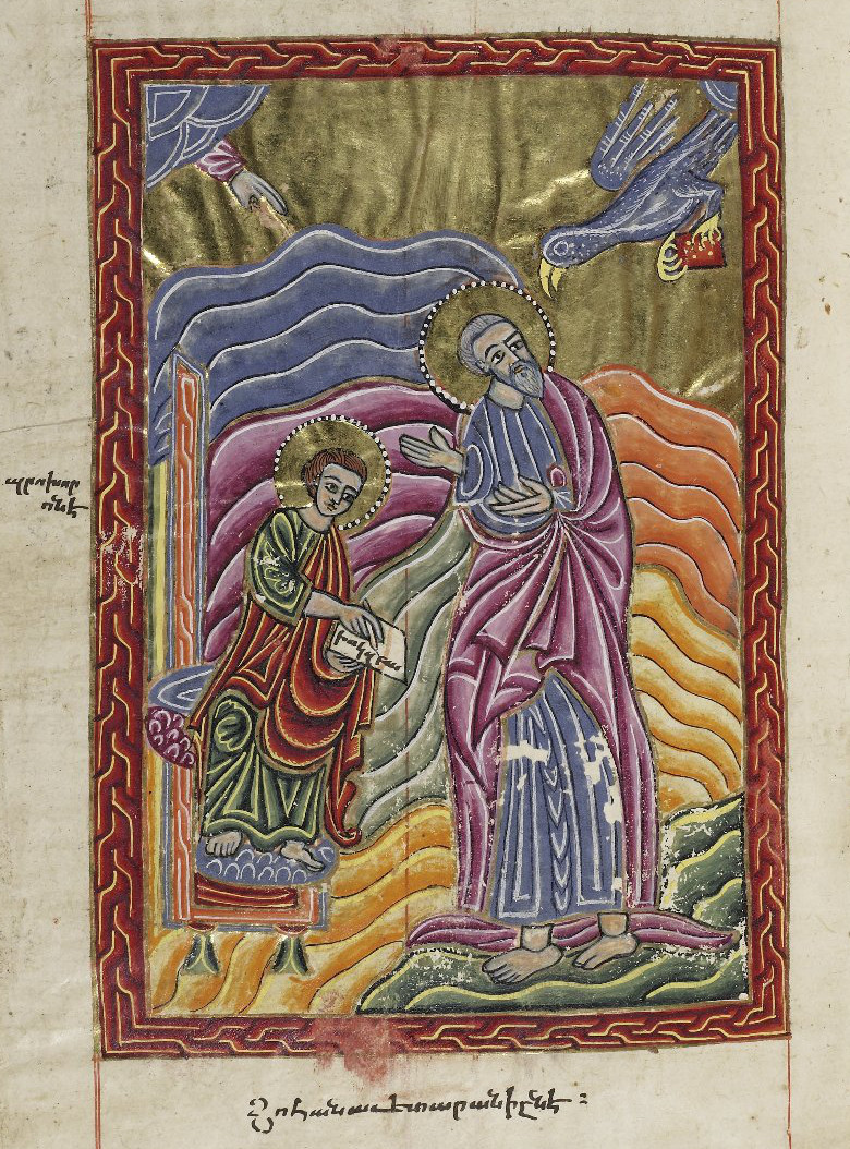 St. John dictating to Prochoros. Painted miniature, Gospel head-piece. From Illuminated Armenian Gospels with Eusebian canons. Shelfmark MS. Arm. d.13.